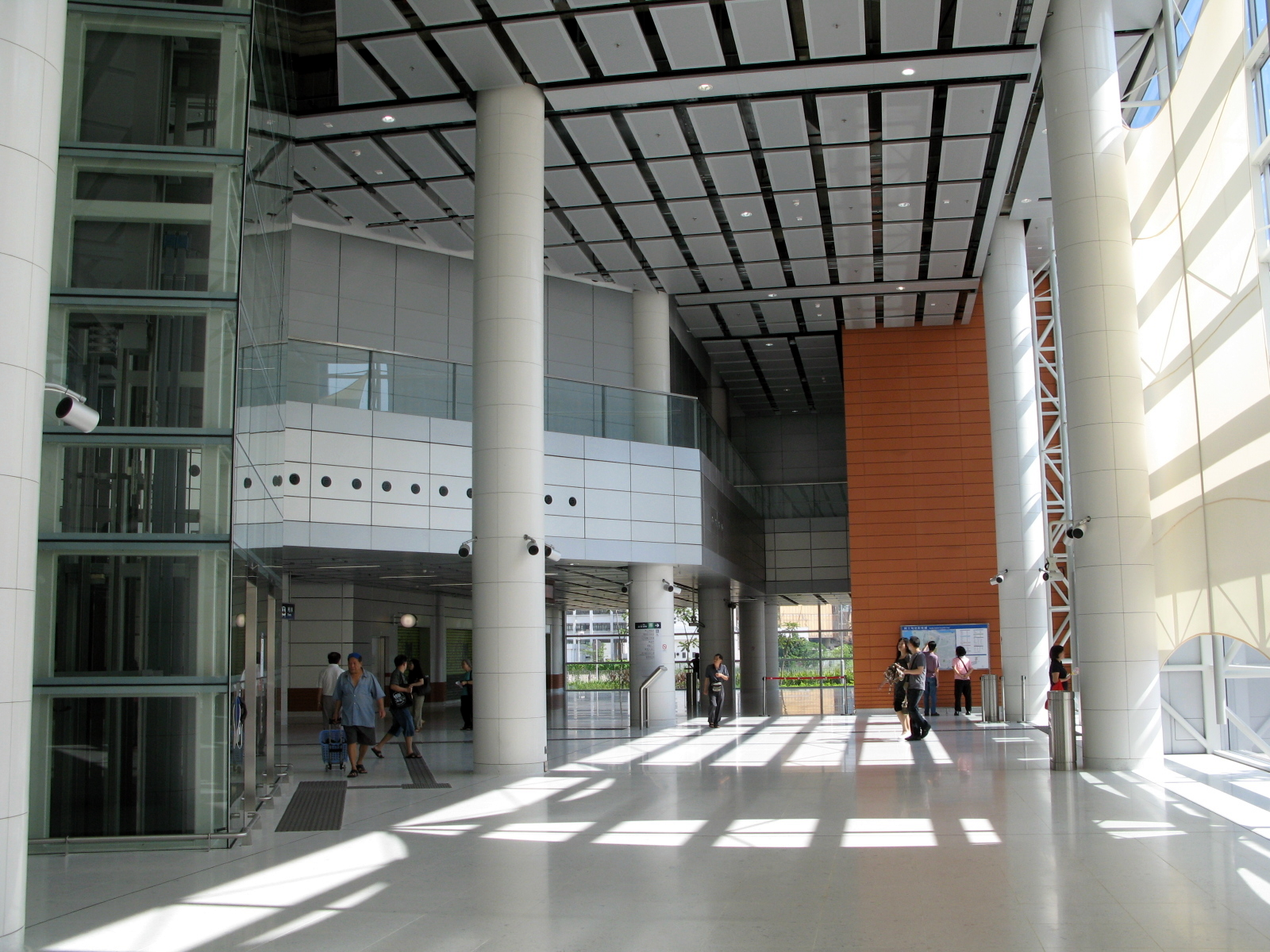 HK Austin Station Level C Concourse 柯士甸站